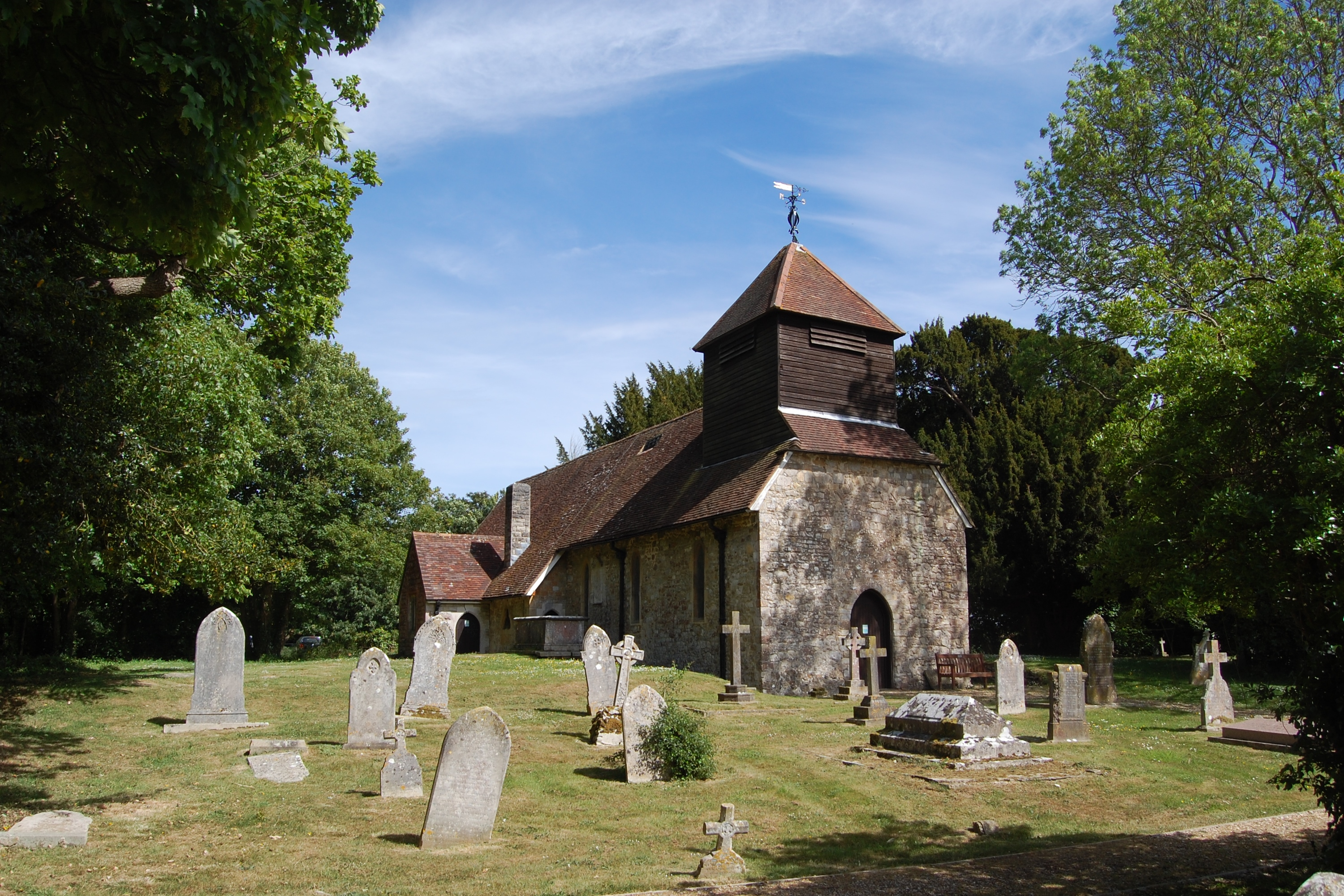 St Mary's Church, Hound Road, Hound, Borough of Eastleigh, Hampshire, England. The Anglican parish church of Hound, a hamlet between Bursledon and Netley.